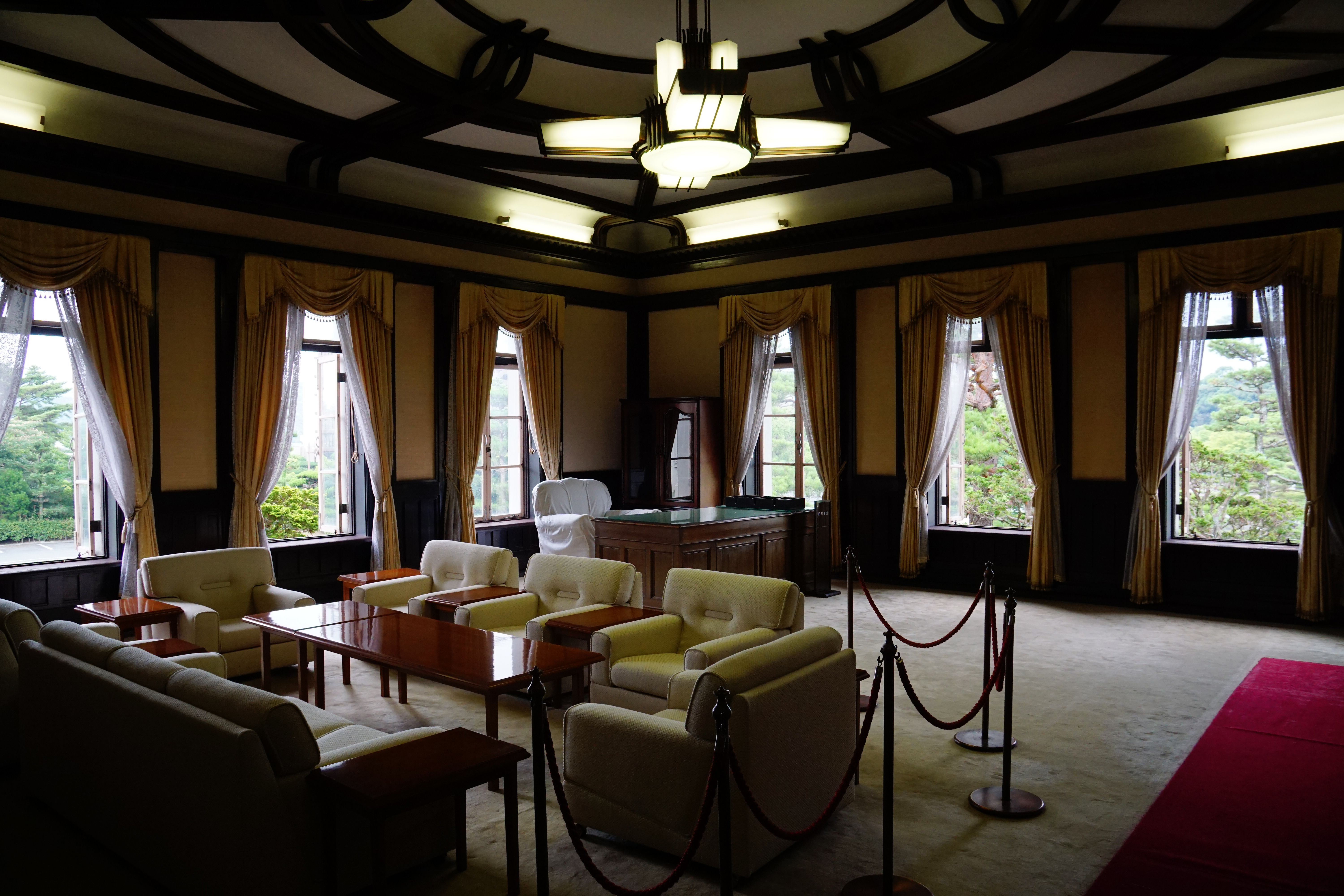 Former Yamaguchi Prefectural Government Office Building in Yamaguchi, Yamaguchi prefecture, Japan.